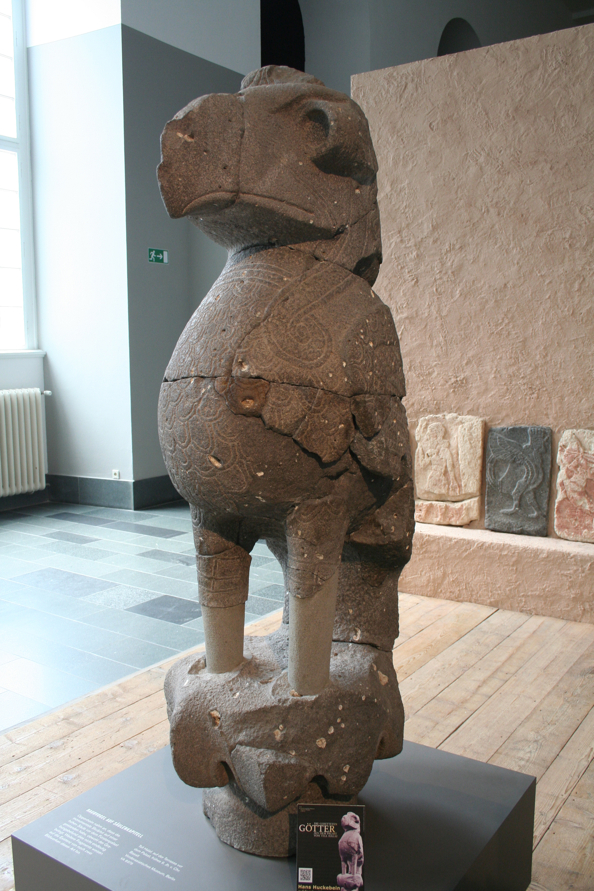 Exhibition "Die geretteten Götter aus dem Palast vom Tell Halaf" (The rescued gods from the palace of Tell Halaf), Pergamon Museum, Berlin